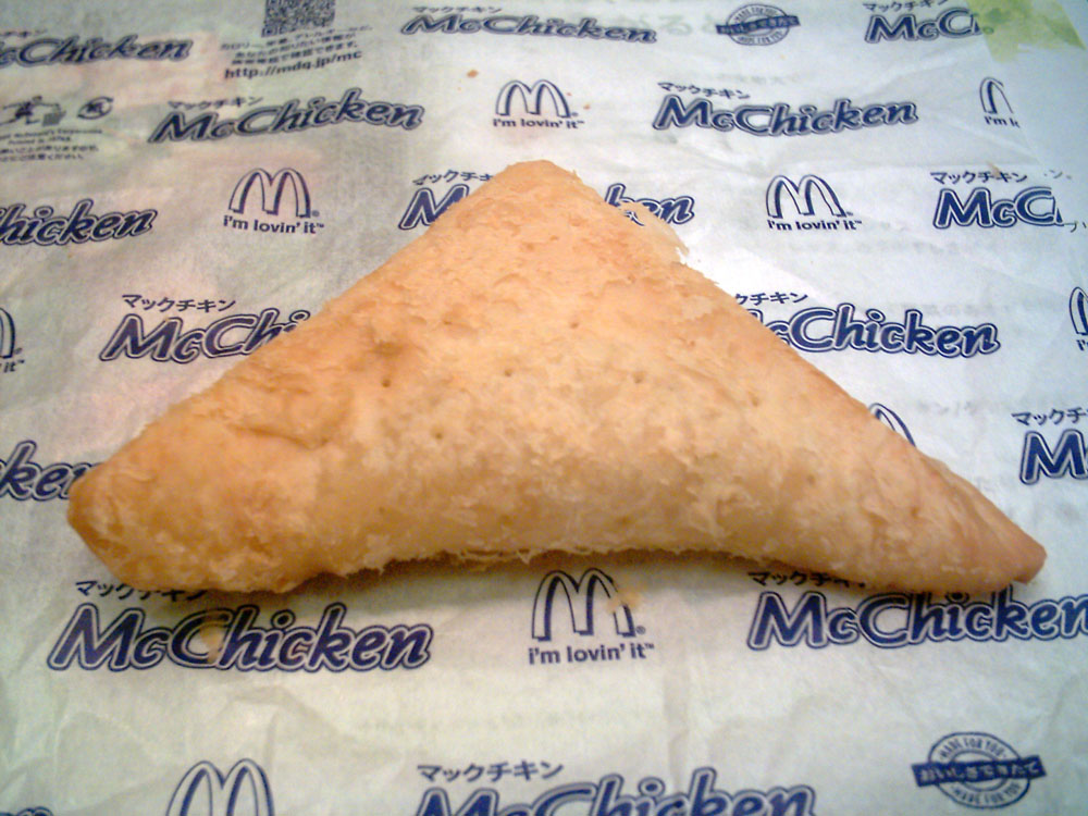 Marron_Pie_McDonald's・Tokyo,_Japan photography day, 2006/10/20 photography person kici